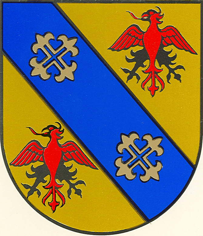 Coat of Arms of the counts of Almada, in Portugal